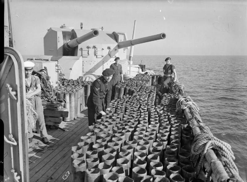 IWM caption : The Royal Navy's big guns support the Allied armies in Normandy on board the cruiser HMS SIRIUS in the Sword area. The number of shells used by Royal Marines manning the twin 5.25 inch gun X turret can be gauged by the shell cases massed on X-gun deck. They number more than 2,000.